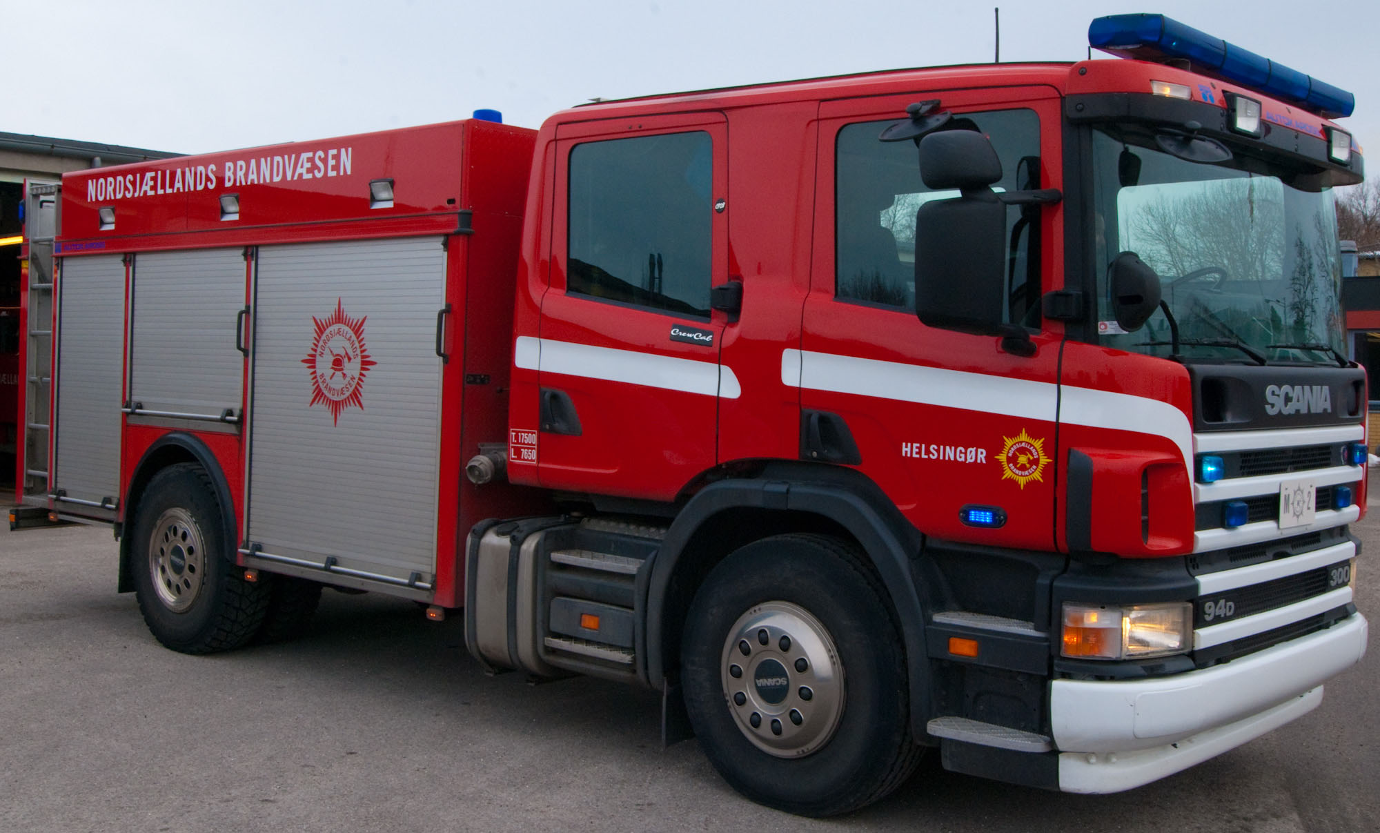 Danish firetruck from Helsingør, build on a Scania P94D/300.